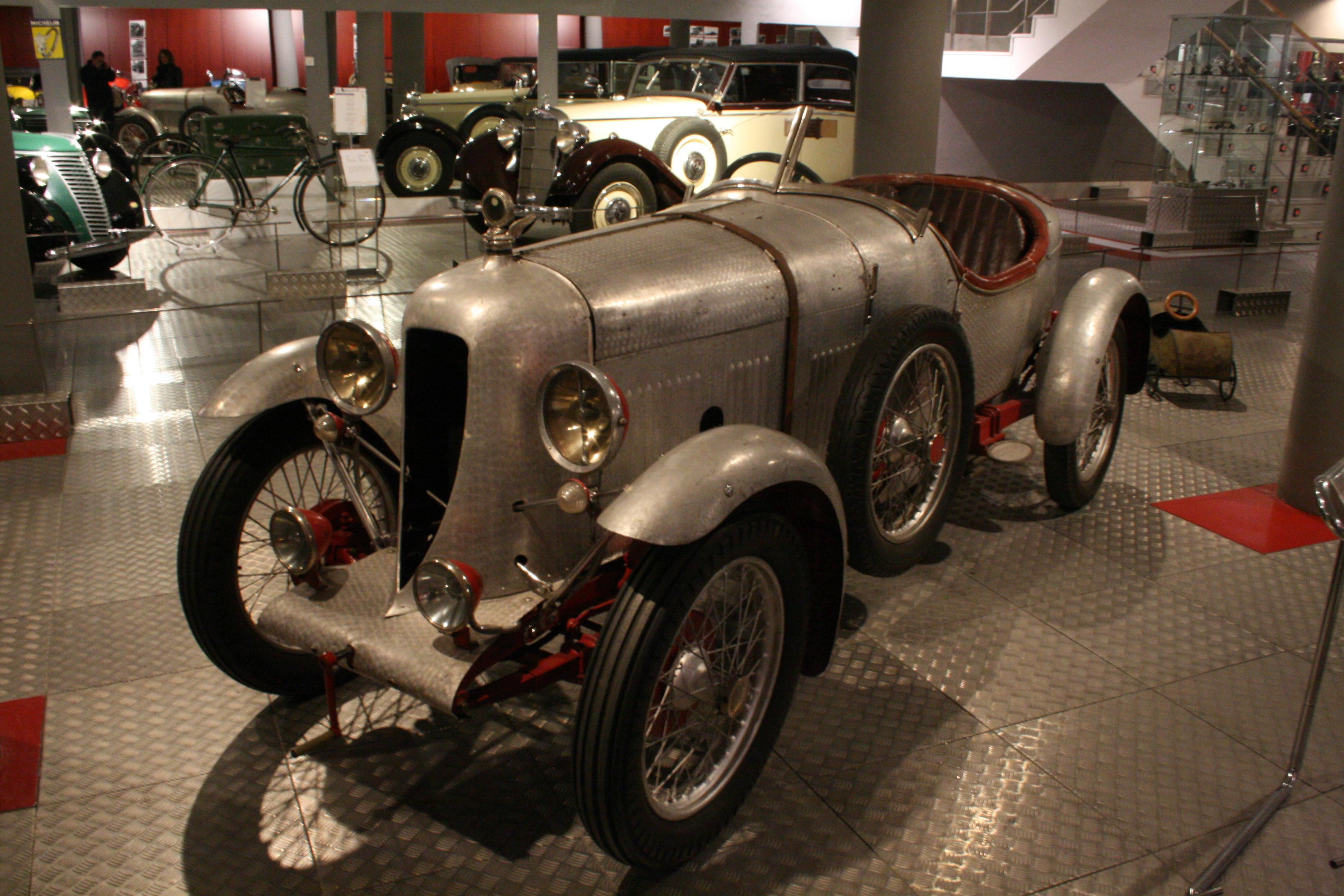 1927 Amilcar CGSS Torpedo, 1,074cc and 35hp. Seen in the Salamanca Automotive History Museum.